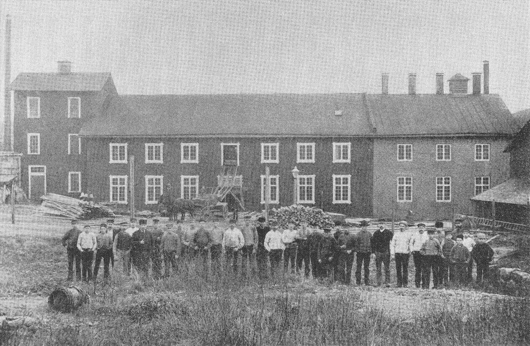 The pulp mill in Ätrafors. The pulp mill was destroyed by fire in 1905